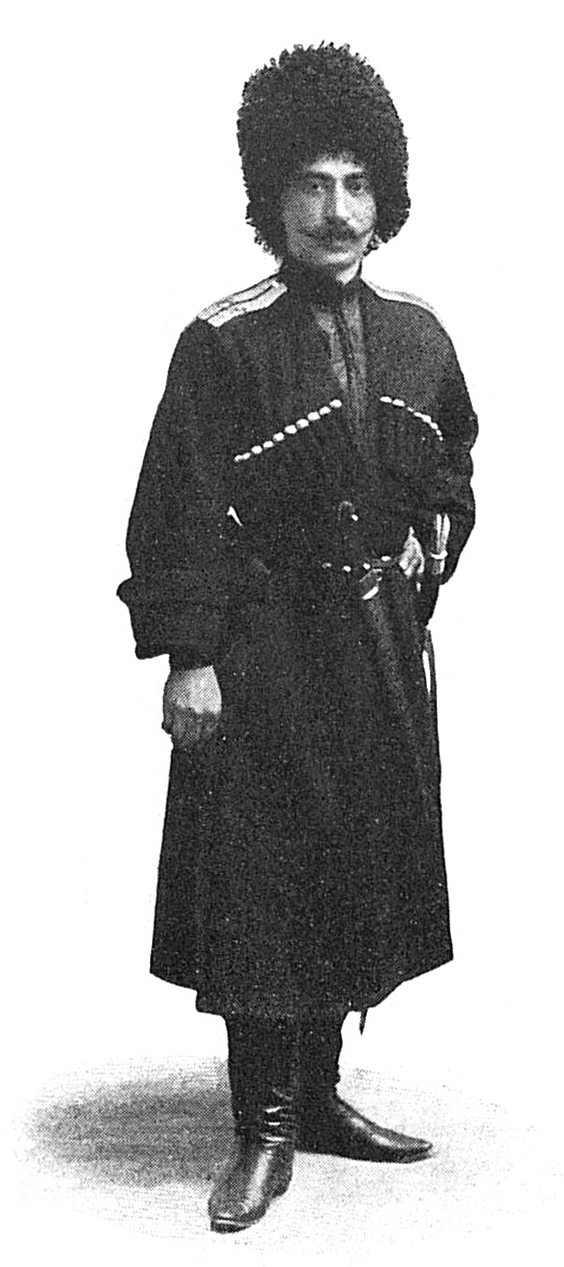 Feyzulla Mirza Qajar in 1905, an officer of "Wild Division".